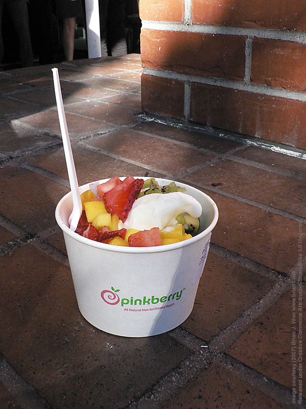 Medium Pinkberry Original frozen yogurt with fruit toppings